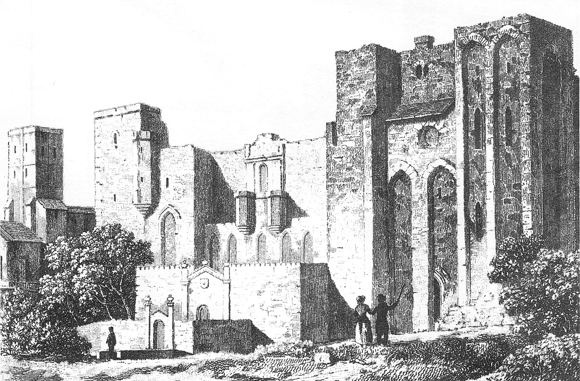 The pope palace in Avignon at the beginning of the XIXth century